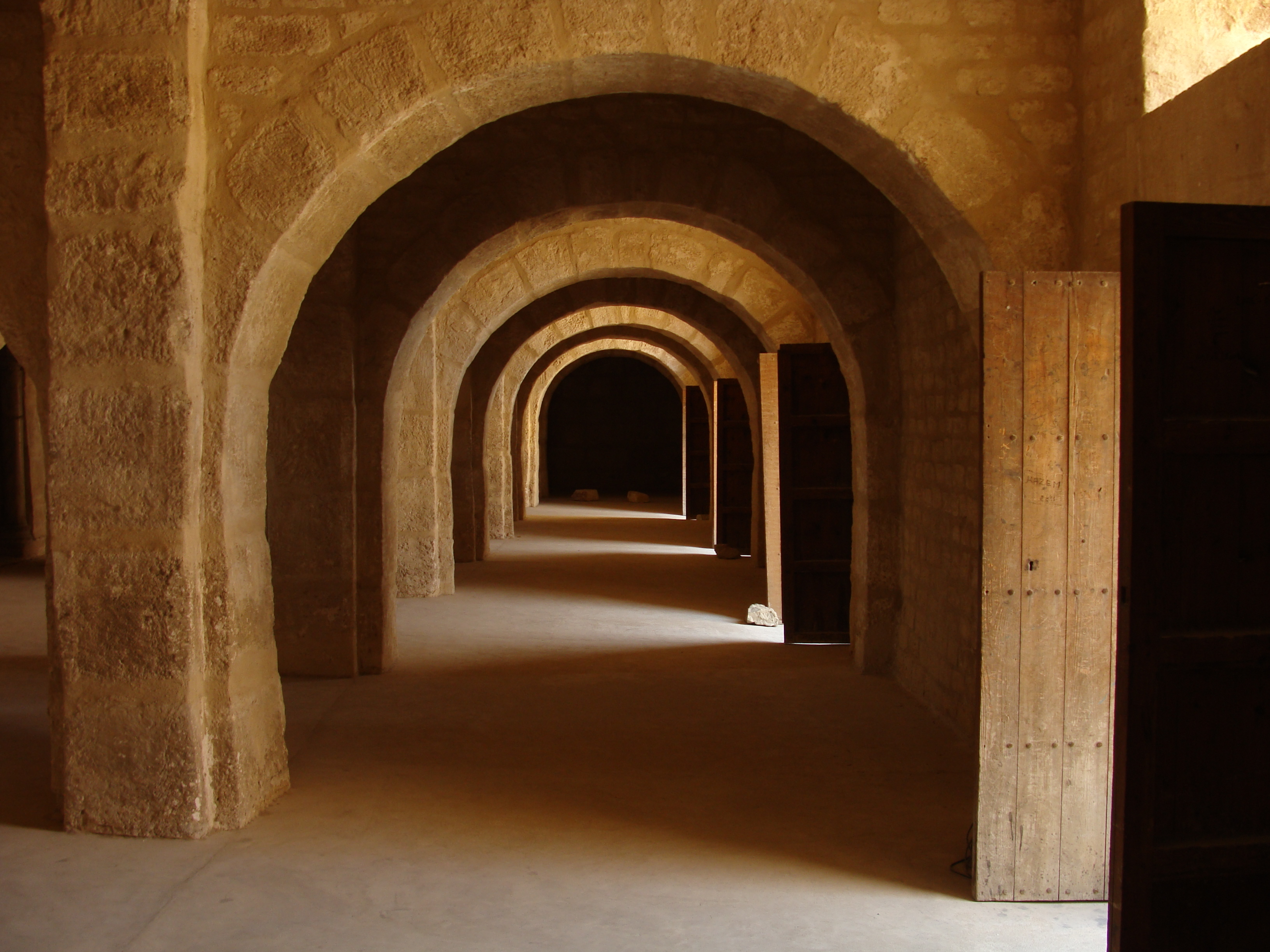 Picture taken inside the hall of the ribat in Sousse, Tunesia.